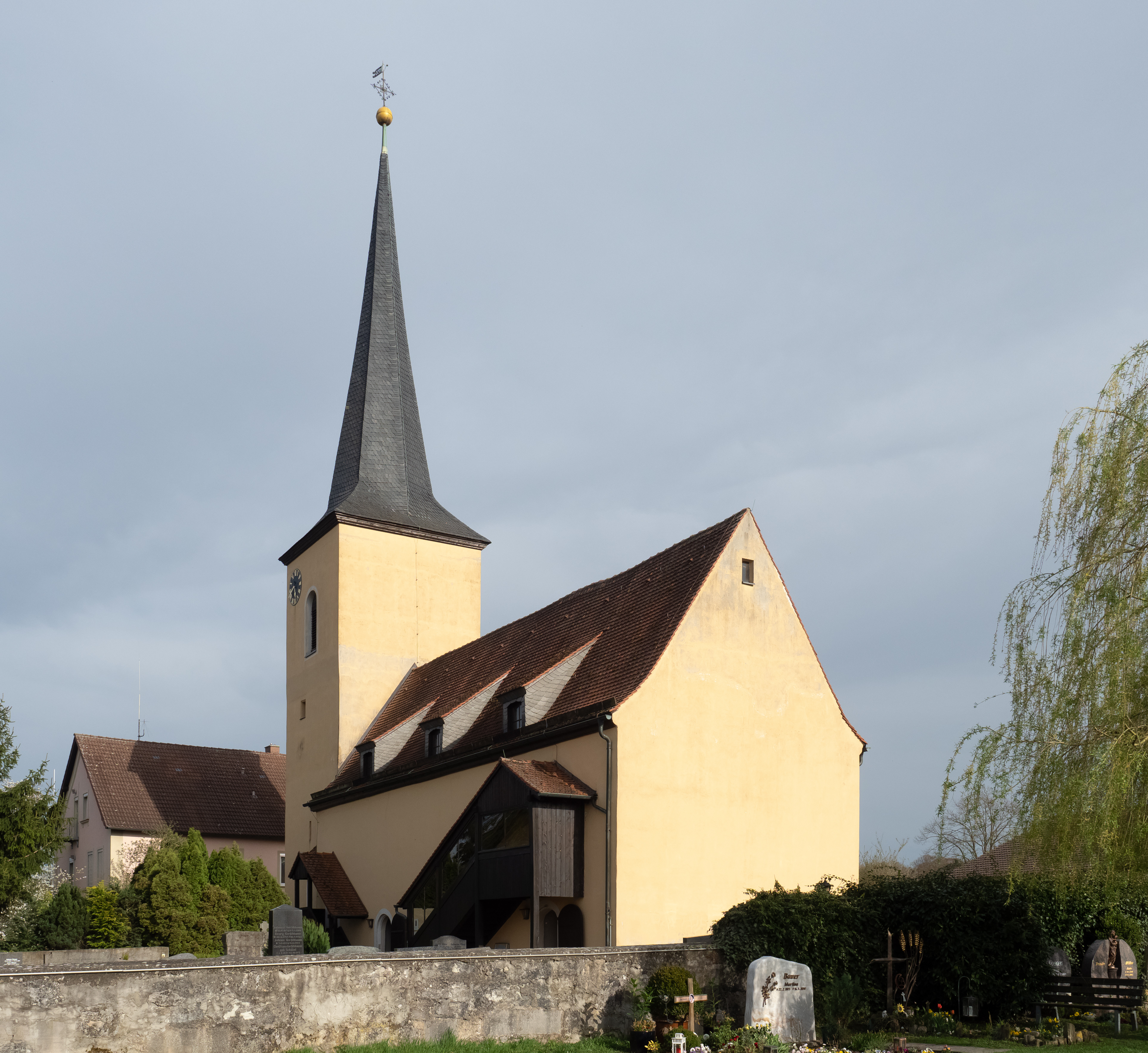 The Evangelical Lutheran Parish Church in Neuhaus near Höchstadt an der Aisch